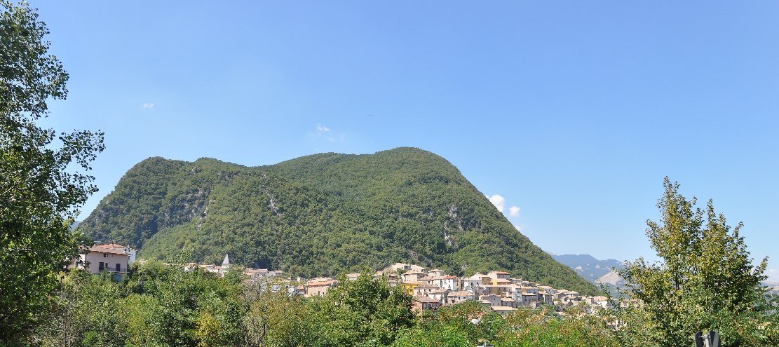 Guardiaregia 2012 Dieses Foto entstand in Zusammenarbeit mit Stadtbesichtigungen.de Die Seiten Stadtbesichtigungen.de, der dazugehörige Reise Blog sowie die Facebookseite: Stadtbesichtigungen Rom dürfen dieses Bild für Ihre Veröffentlichungen ohne den Hinweis auf Wikipedia, Commons bzw der Lizenz verwenden. Die Verantwortlichen habe von mir (Ra Boe) die Originaldaten zur freien Verfügung übermittelt bekommen. Foro Appio Mansio Hotel